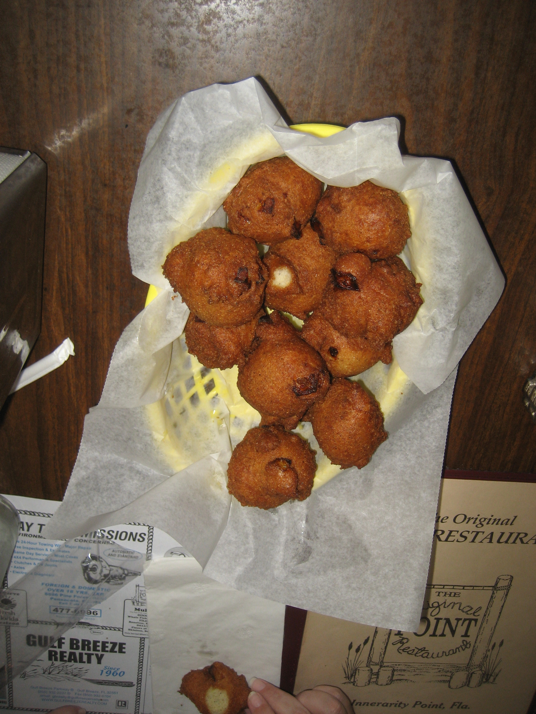 Basket of hushpuppies, "The Point" restaurant, Perdido Key, Florida.